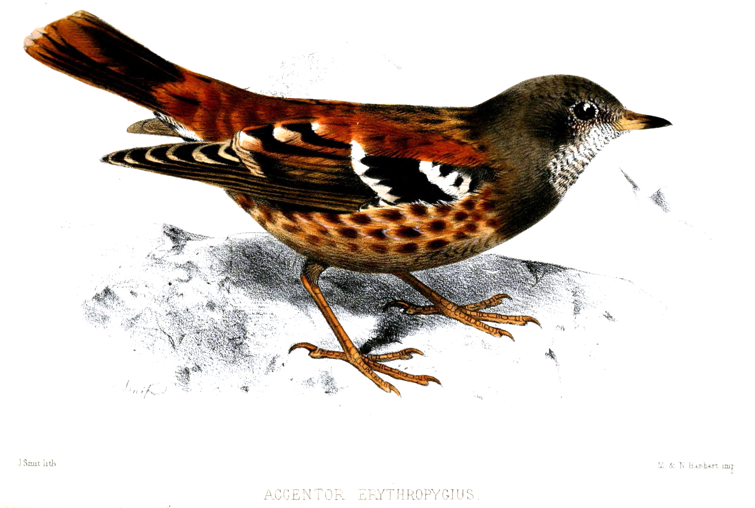 Alpine Accentor